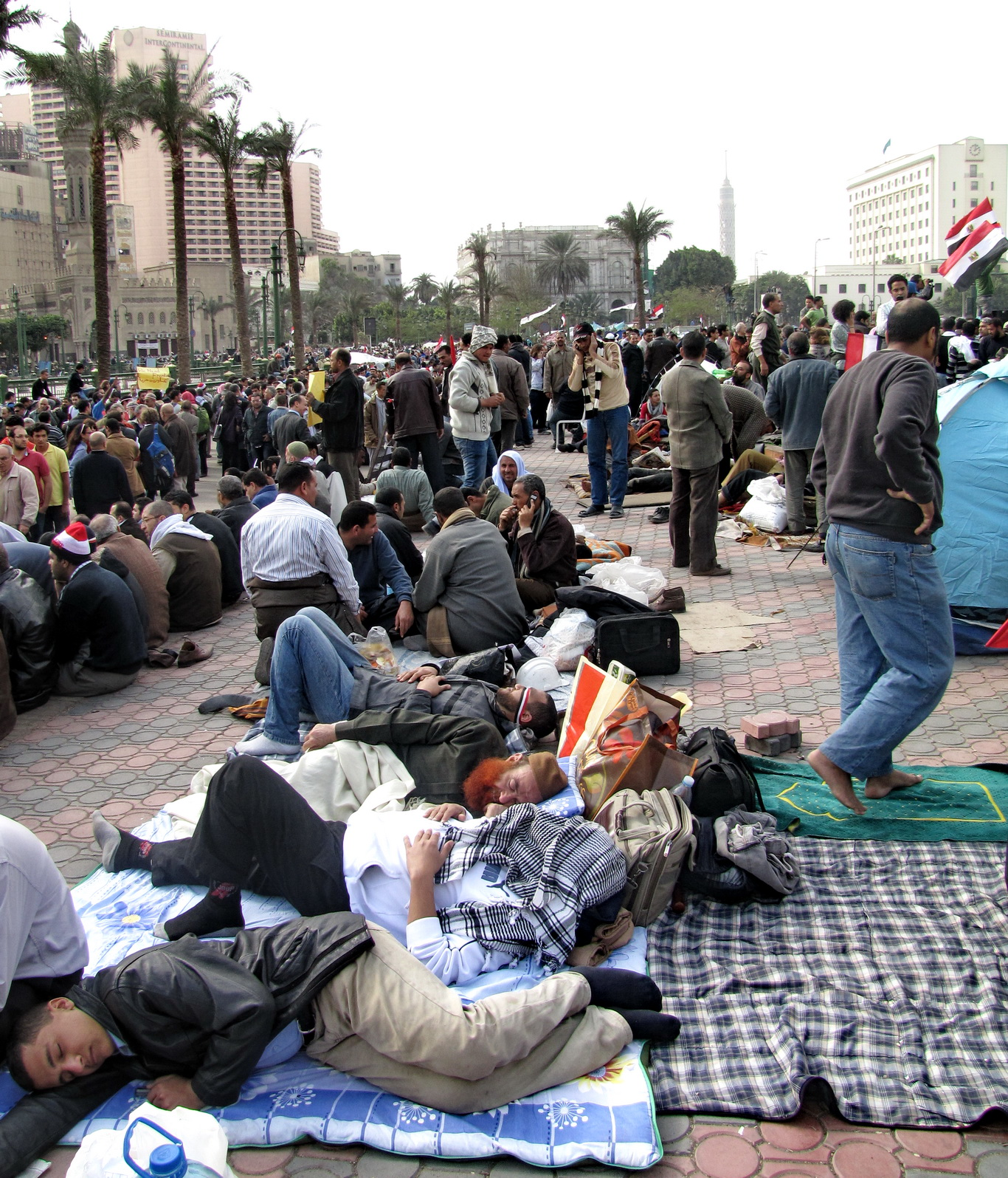 Here, in a slightly elevated area behind Etha'et al-thawra (lit: "Broadcast of the revolution"), protesters sleep and rest on the ground. Visible in the background is Omar Makram Mosque on the left, the InterContinental Hotel, the Cairo Tower, and the Headquarters of the Arab League on the right.